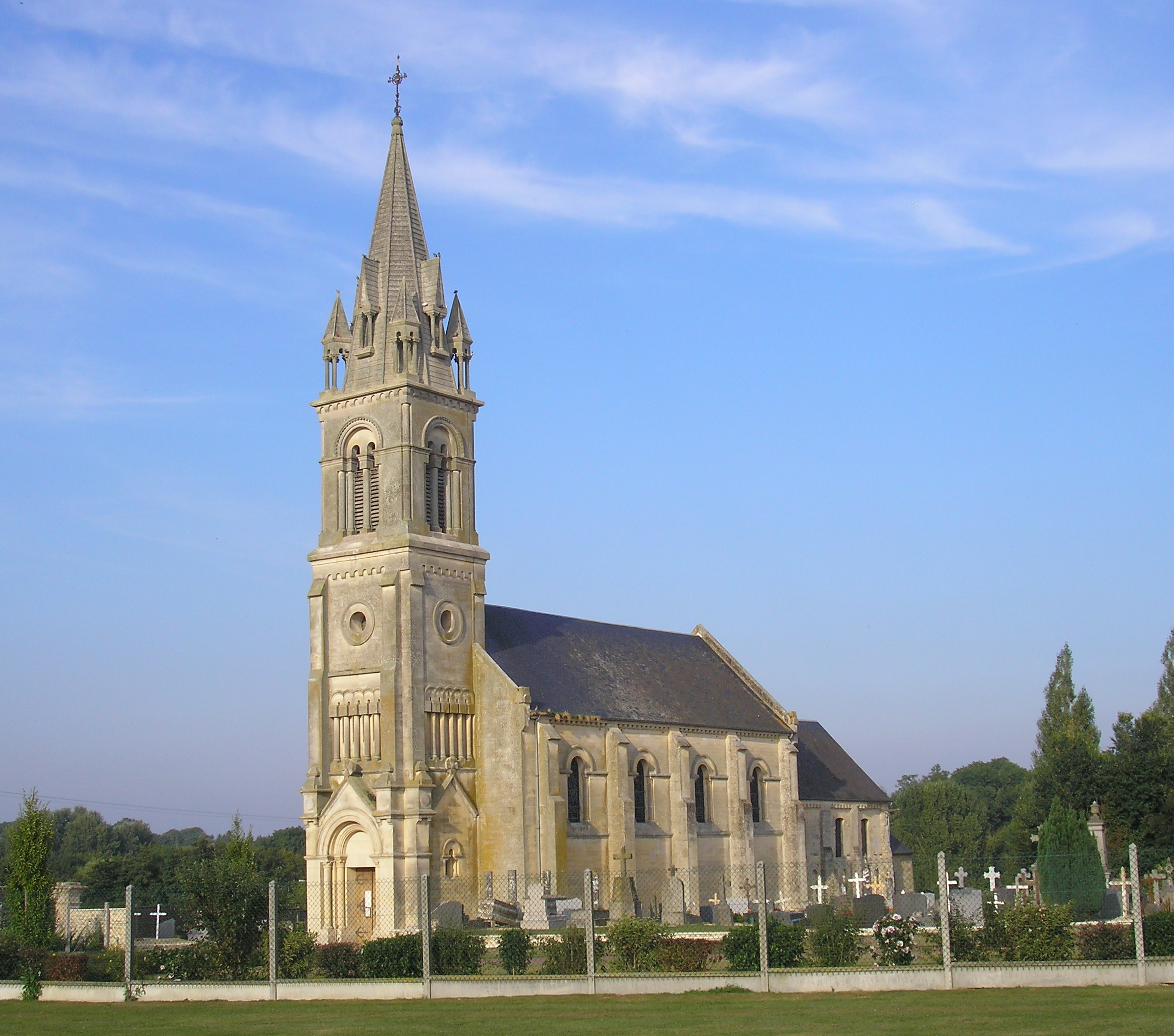 Saint-Aubin's church in Fontenay-le-Pesnel (Calvados, France)